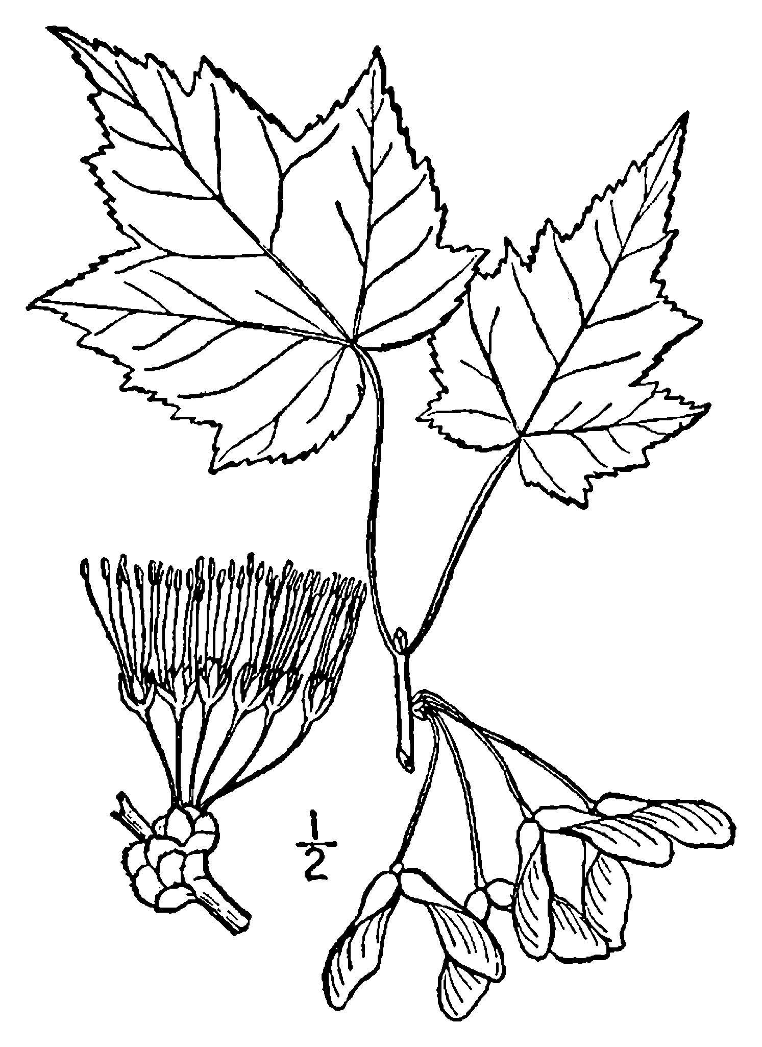 Red Maple. Drawing.